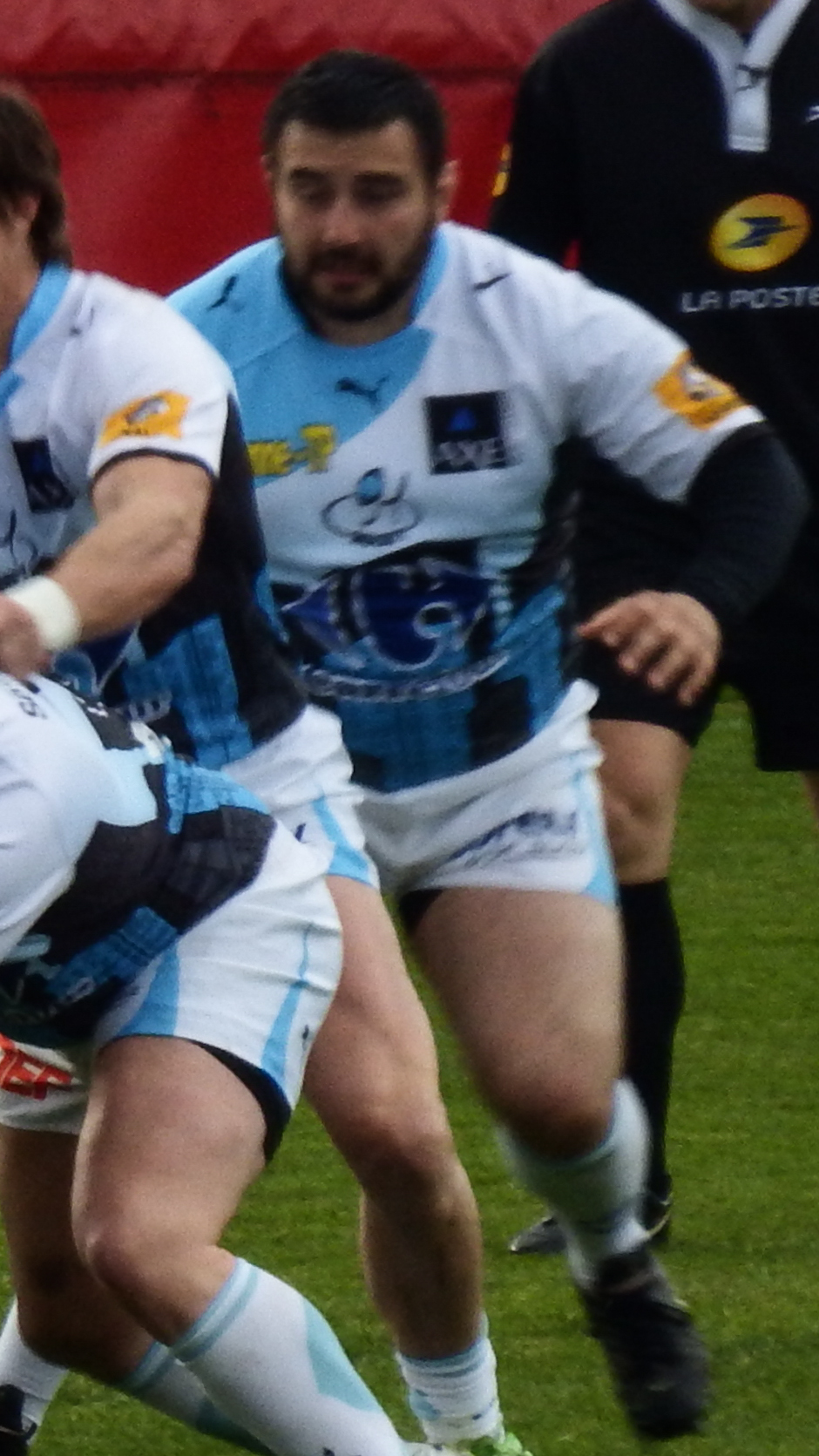 Pro D2 2014-2015 — 4 April 2015, Stade Maurice-Boyau. Match between: US Dax — RC Massy